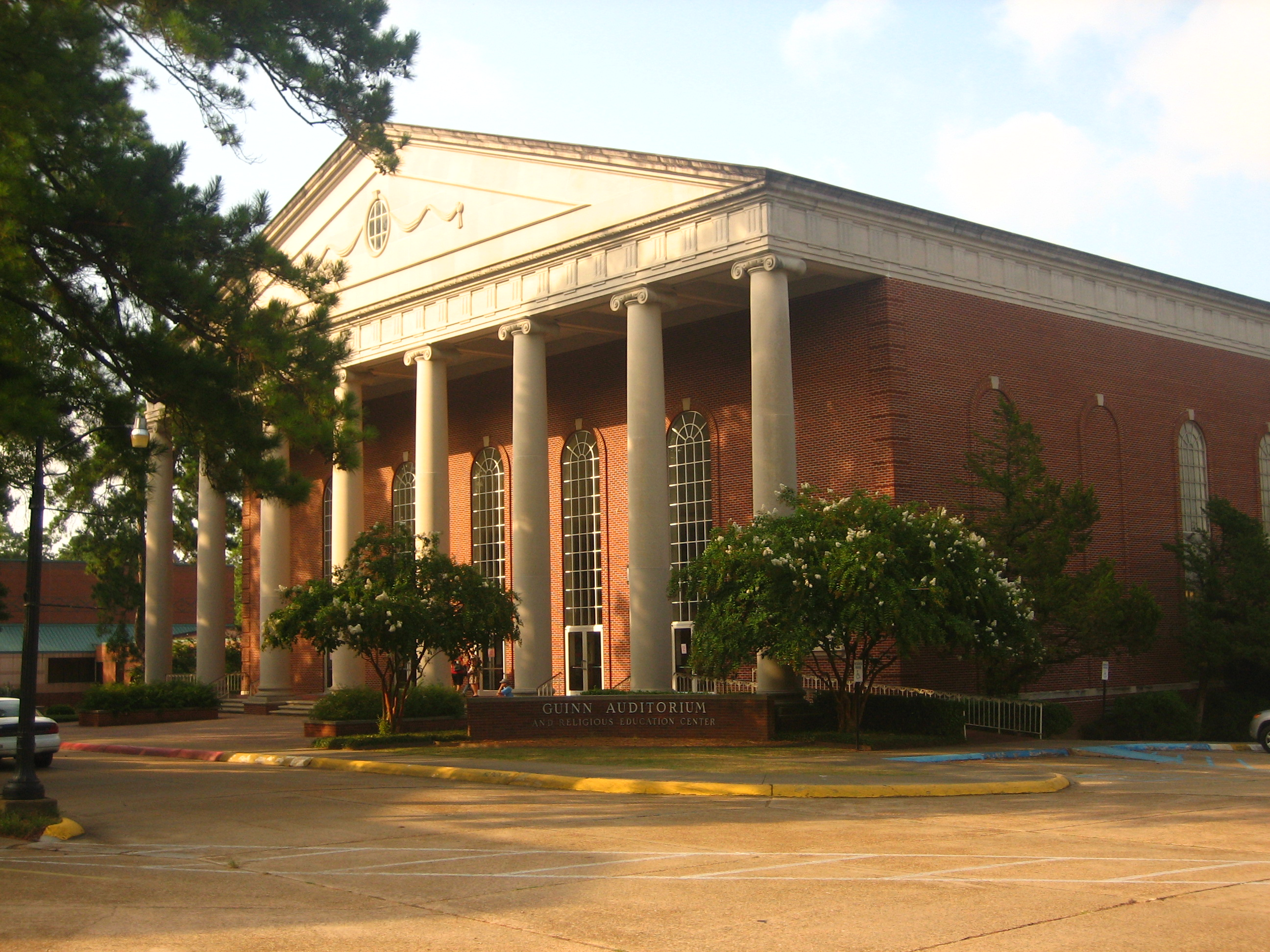 I took photo on Aug. 1, 2008.Billy Hathorn (talk) 03:34, 20 August 2008 (UTC)